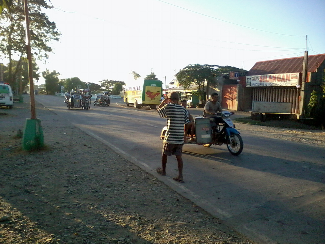 National road in Mamburao, Occidental Mindoro